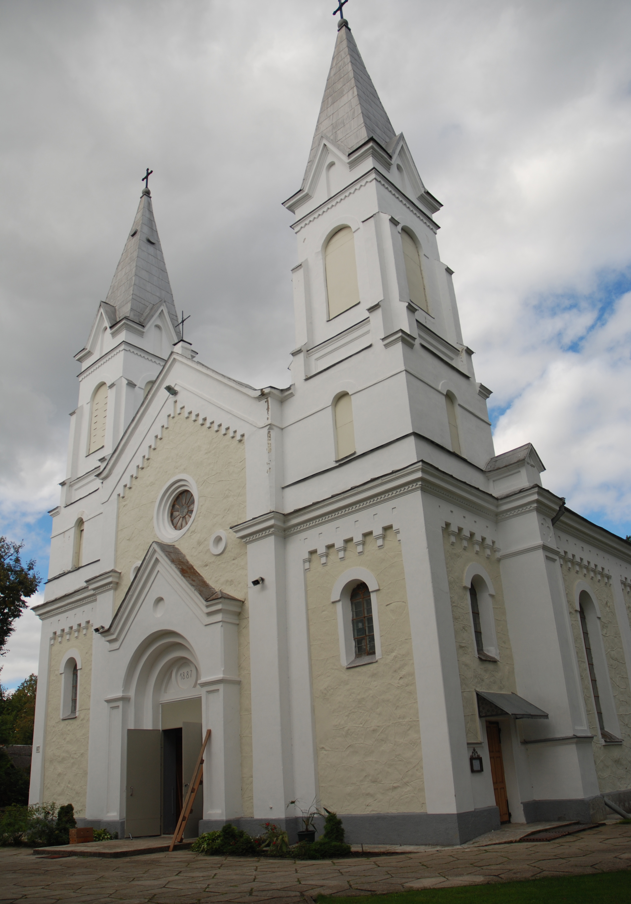 Pakruojis Church of St. John the Baptist